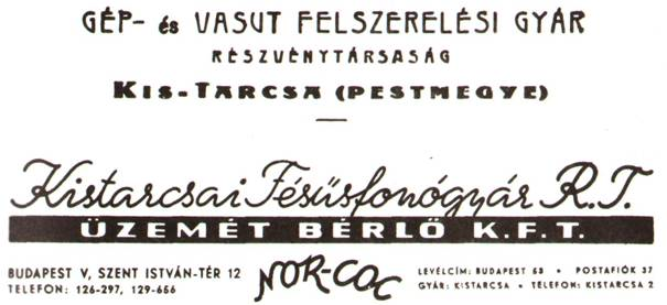 Letterhead of a company in Kistarcsa (1947-1949)